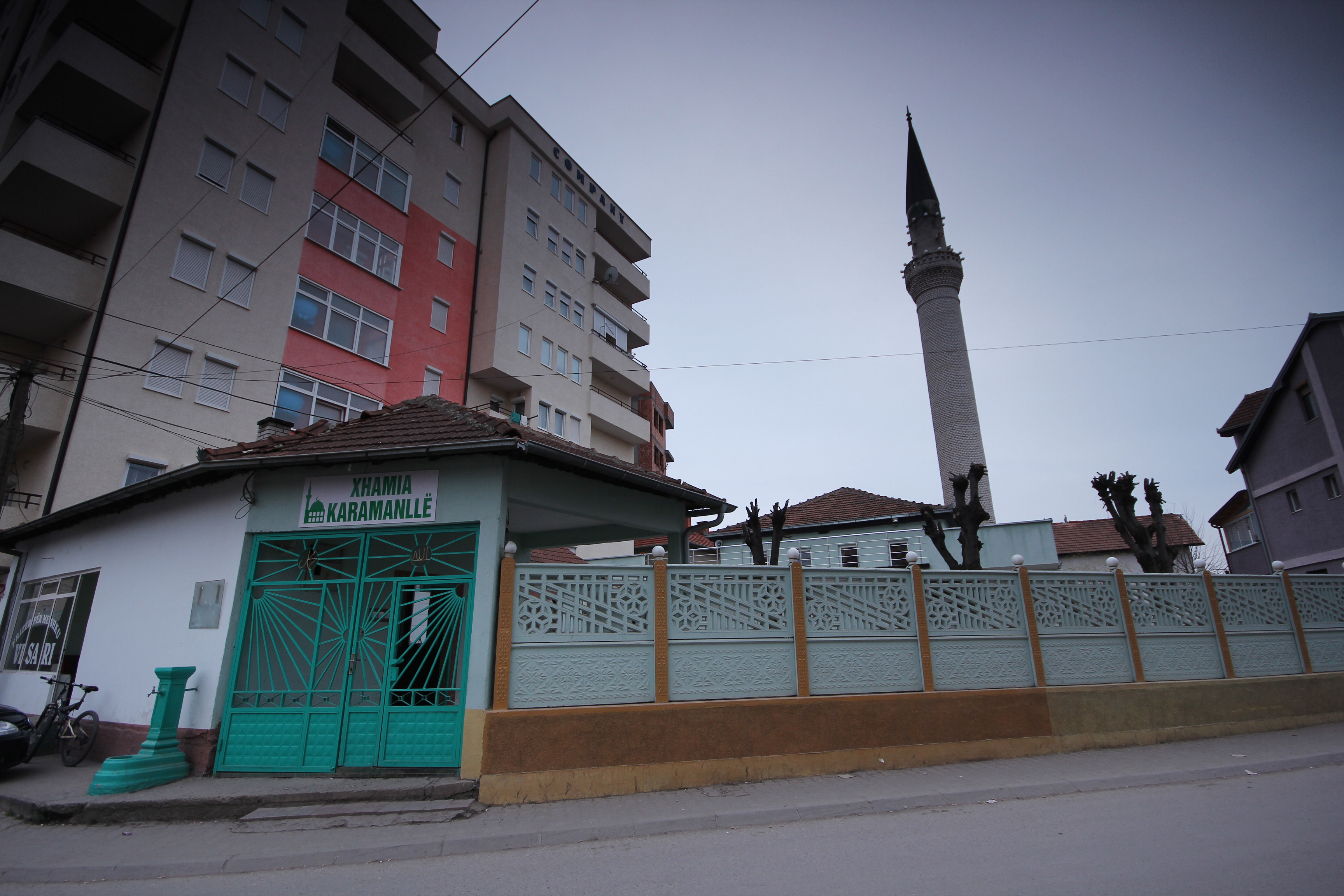 Vushtrri